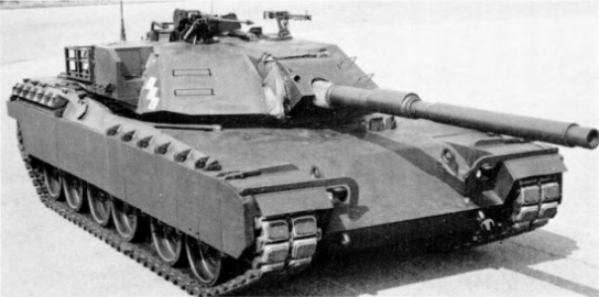 General Motors XM1 Tank System prototype.